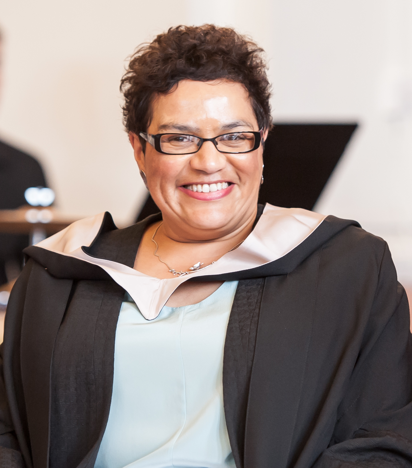 Sixth Chancellor of the University of Salford Installation of Chancellor Professor Jackie Kay MBE - University of Salford, Peel Hall Sixth Chancellor of the University of Salford, April 29, 2015